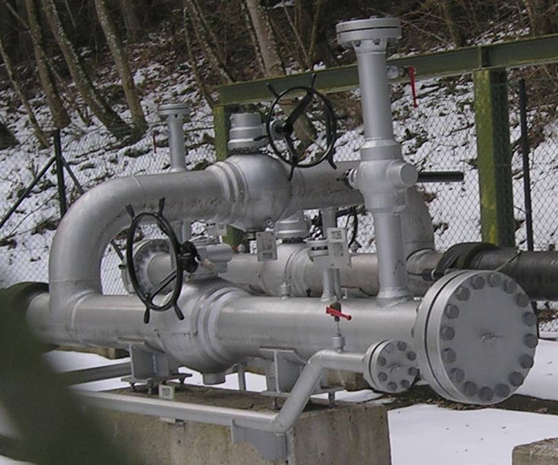 Pigging device for inside cleaning porposes of gas pipelinesThe device, related to the industrial gas pipe line (view 2). Photographed in Switzerland near Dubendorf. I know that this pipeline is used to transport the natural gas, and that this device is the most likely part of the pipeline. Being not expert on pipelines, I cannot explaint the purpose of this system. Audrius Meskauskas.